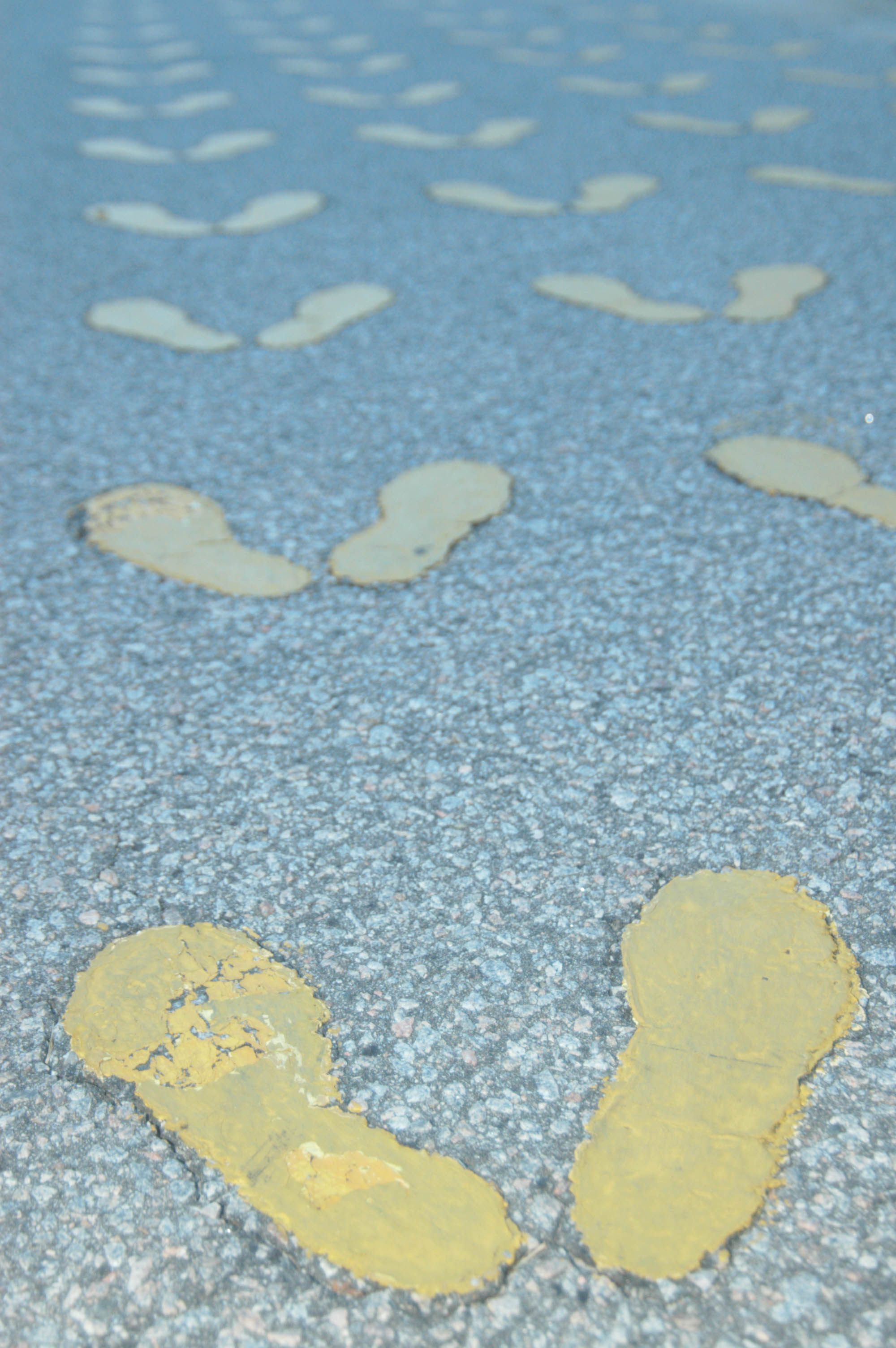 The famous yellow footprints await new recruits aboard the Depot. Original Caption: The first order a new recruit will receive is, 'get off of my bus right now.' The second order is, 'get on my yellow footprints right now.' Thousands of Marines have stood on these symbols of the future throughout Marine Corps history, and thousands more will continue that tradition during the late hours on their first night aboard the Depot. Photo by: Lance Cpl. Brian Kester Photo ID: 200486113317 Submitting Unit: MCRD Parris Island Photo Date:07/27/2004